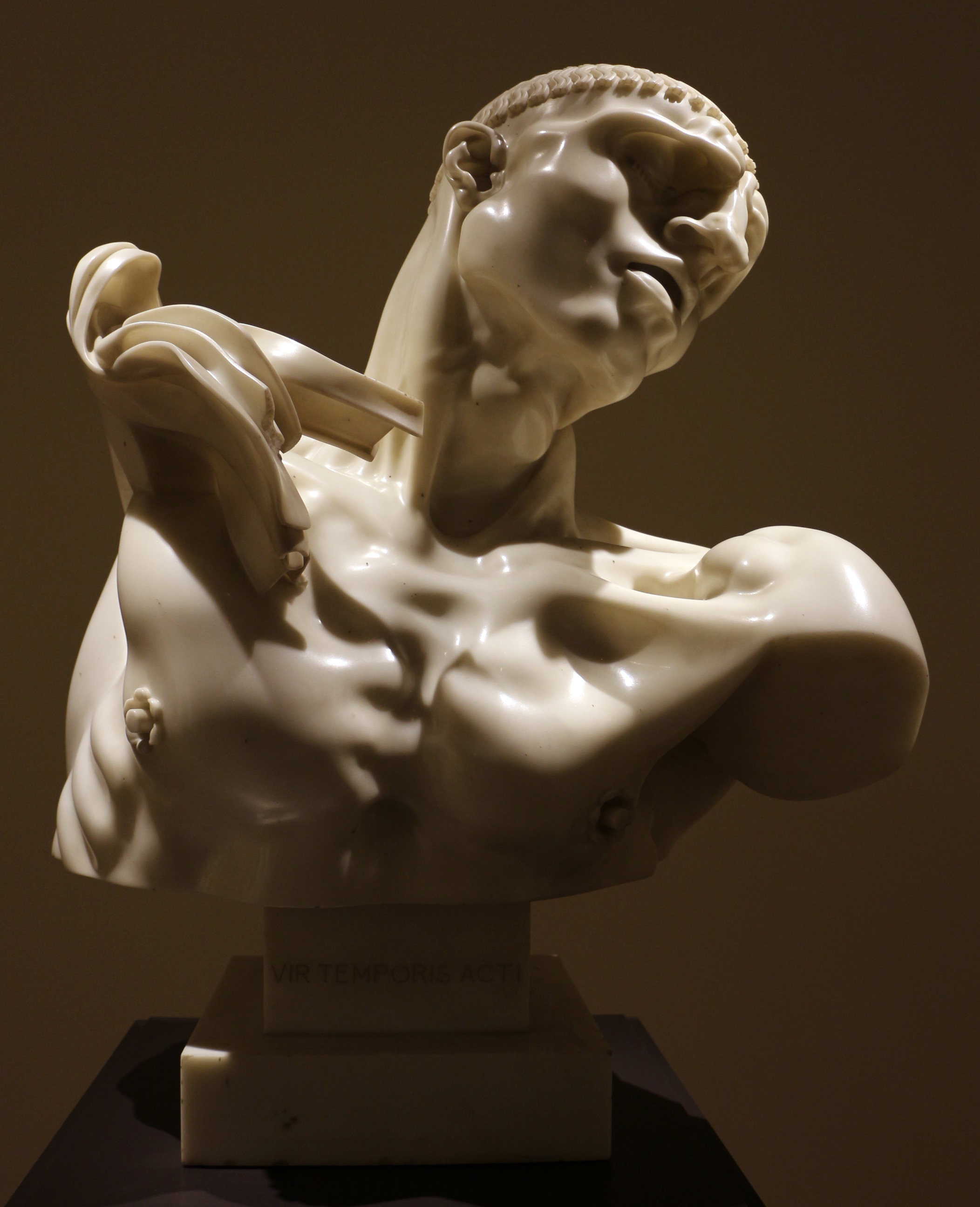 Vir Temporis Acti by Adolfo Wildt